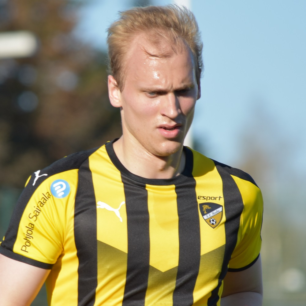 Association football player Jatuli Laevuo (FC Honka)